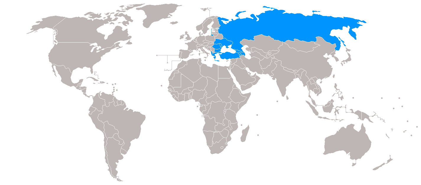 Members of the Black Sea Trade and Development Bank in yellow.